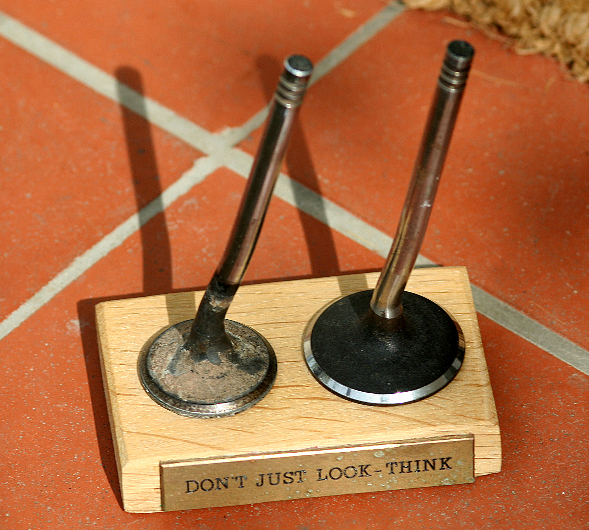 Bent inlet and exhaust valves from a 1981/2 BMW 323i mk1. Valves were bent by piston contact after the engine's timing belt broke while running at 4500rpm. The belt had been contaminated with oil